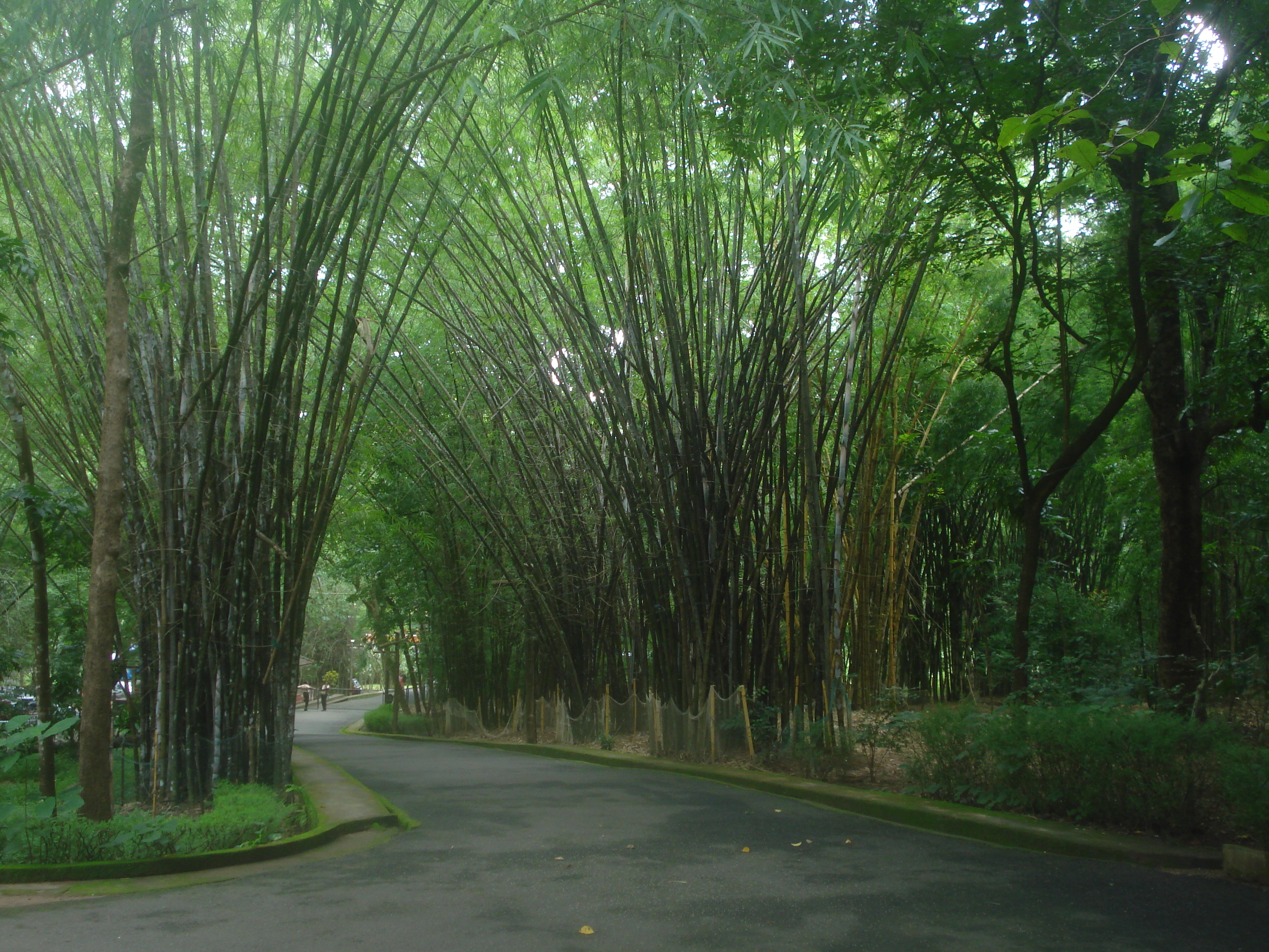 Bamboos seen near Nilambur Teak Museum